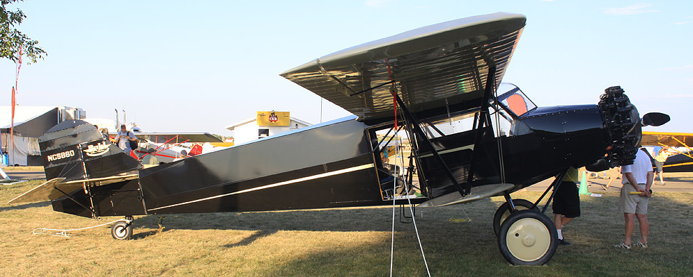 1928 Buhl CA-3C C/N 28